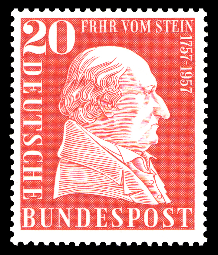 Special stamp for the 200th anniversary of the birth of Freiherr vom Stein (1757-1831)